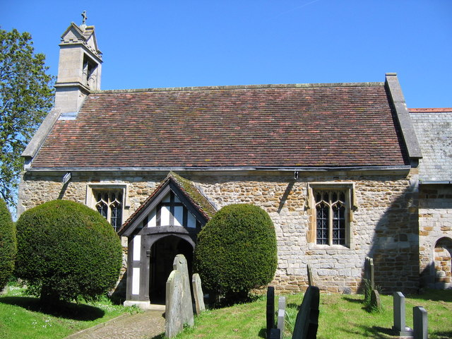 All Saints Church, Foston. A north view of the church which is near the east edge of the grid square.